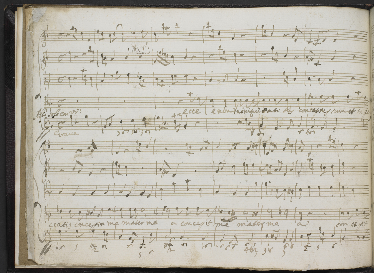 Miserere mei Deus. In the composer's hand.